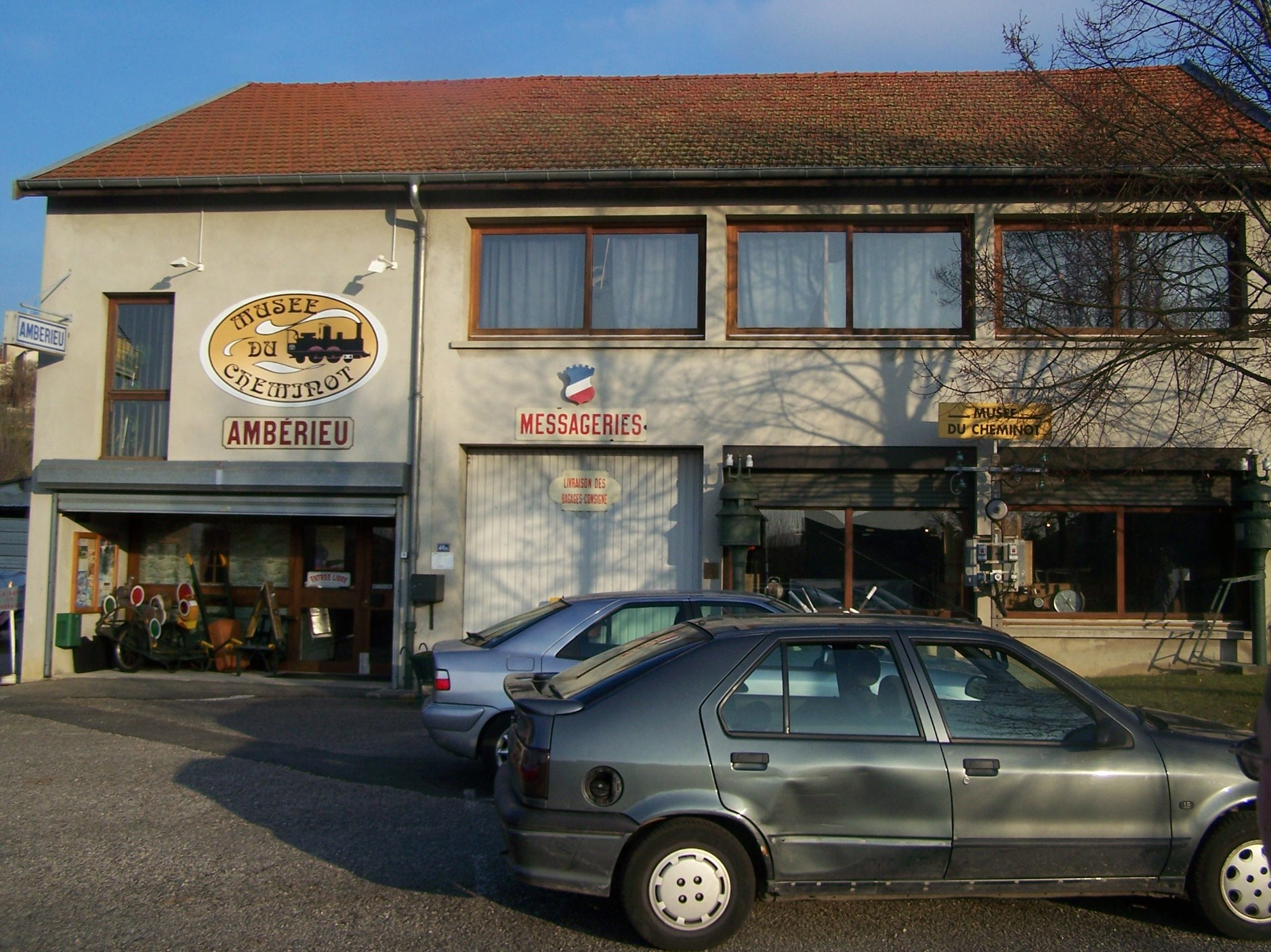 Musée du cheminot railway museum, conserving years of rail history, in the French commune of Ambérieu-en-Bugey in Ain.